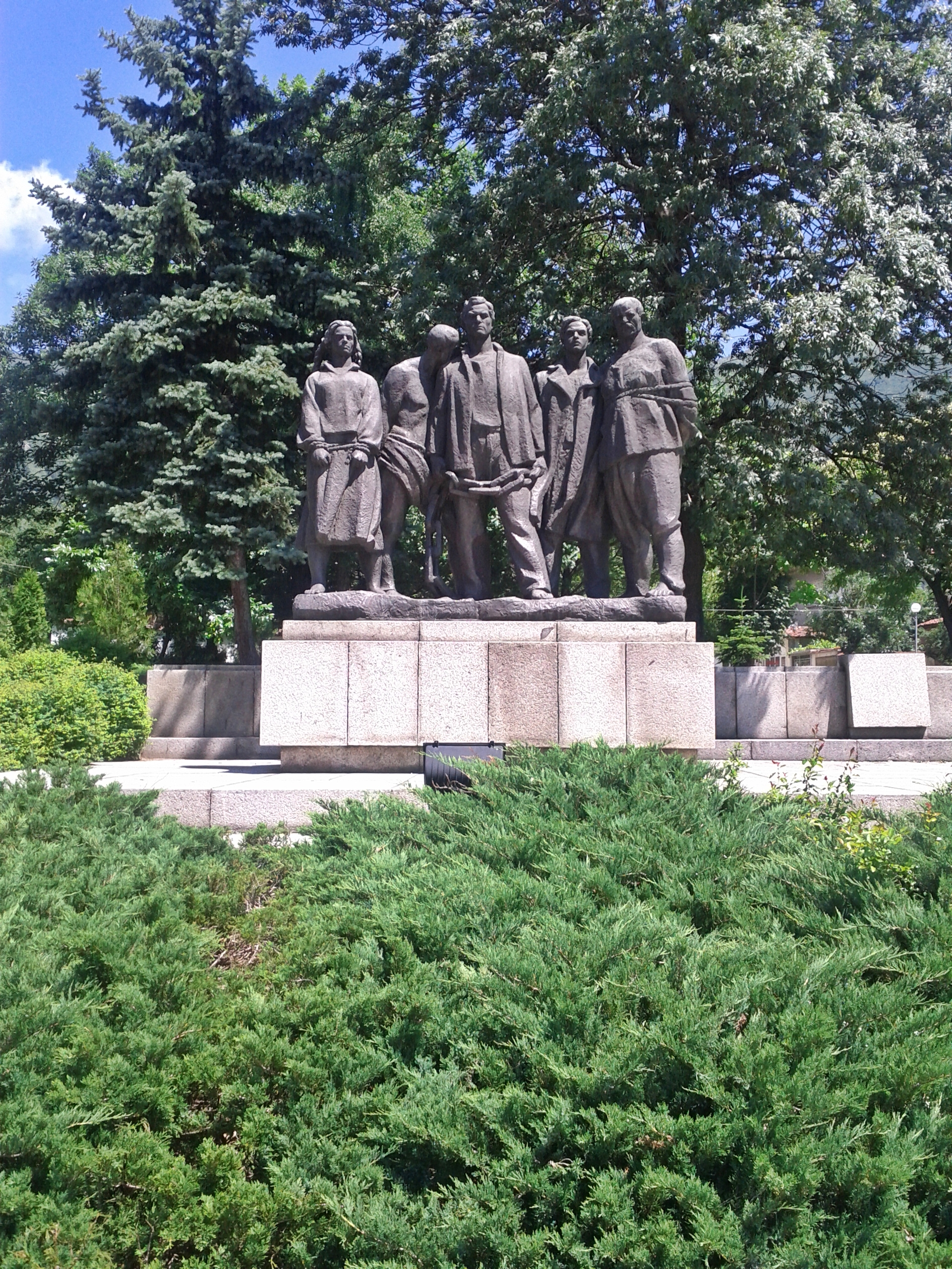 Monument on square "20 July" Karlovo